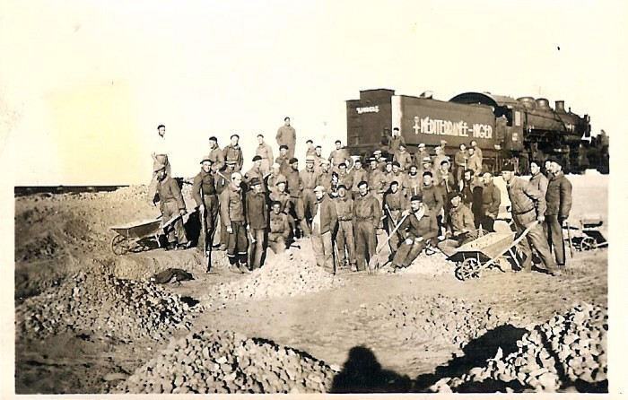 Building of the Trans-Saharan Railway North Africa by slave labour during WWII